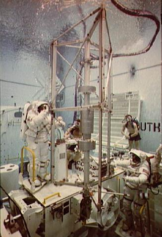 Astronauts practice an STS-61-B EVA to assemble the ACCESS structure